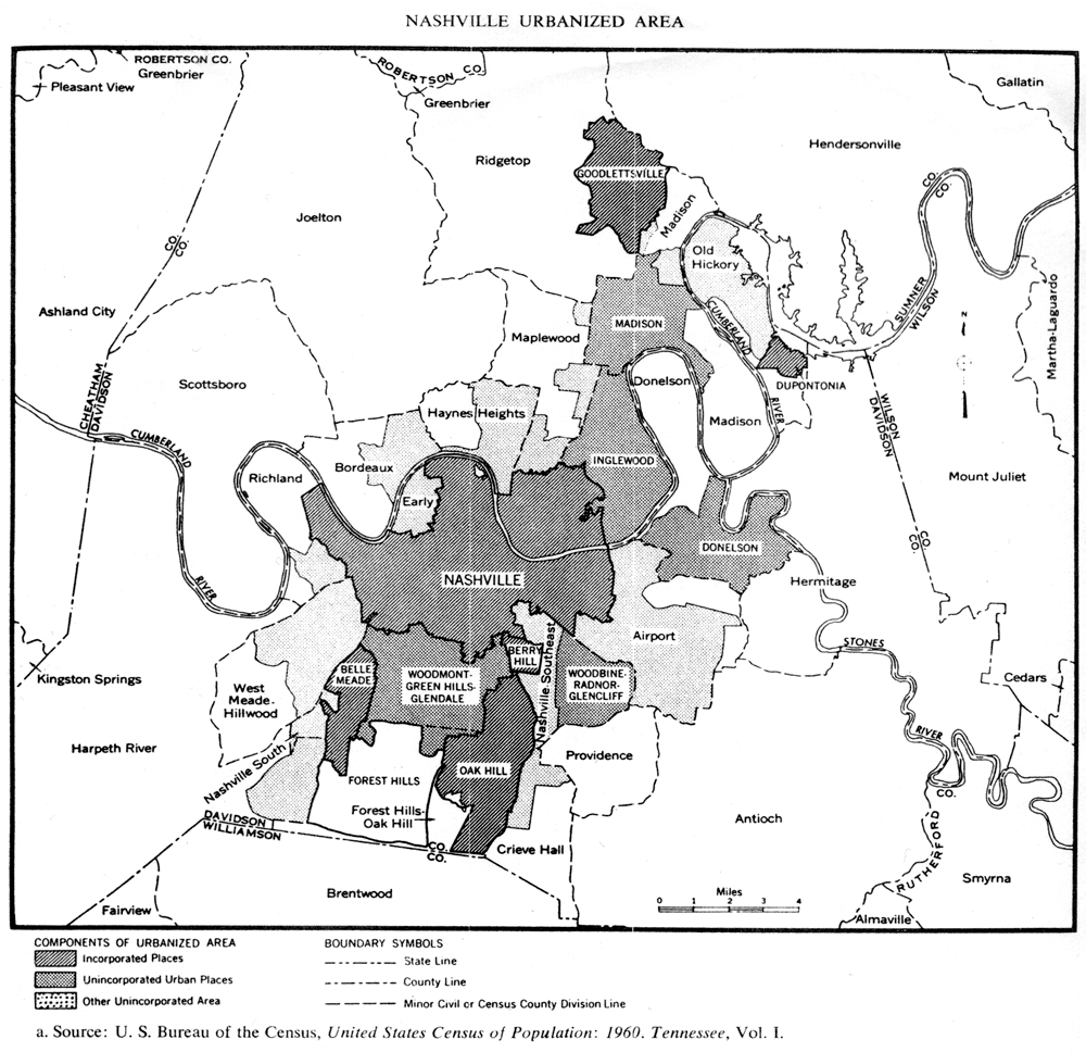 Map of the Nashville area in 1960 from the U.S. Census Bureau.